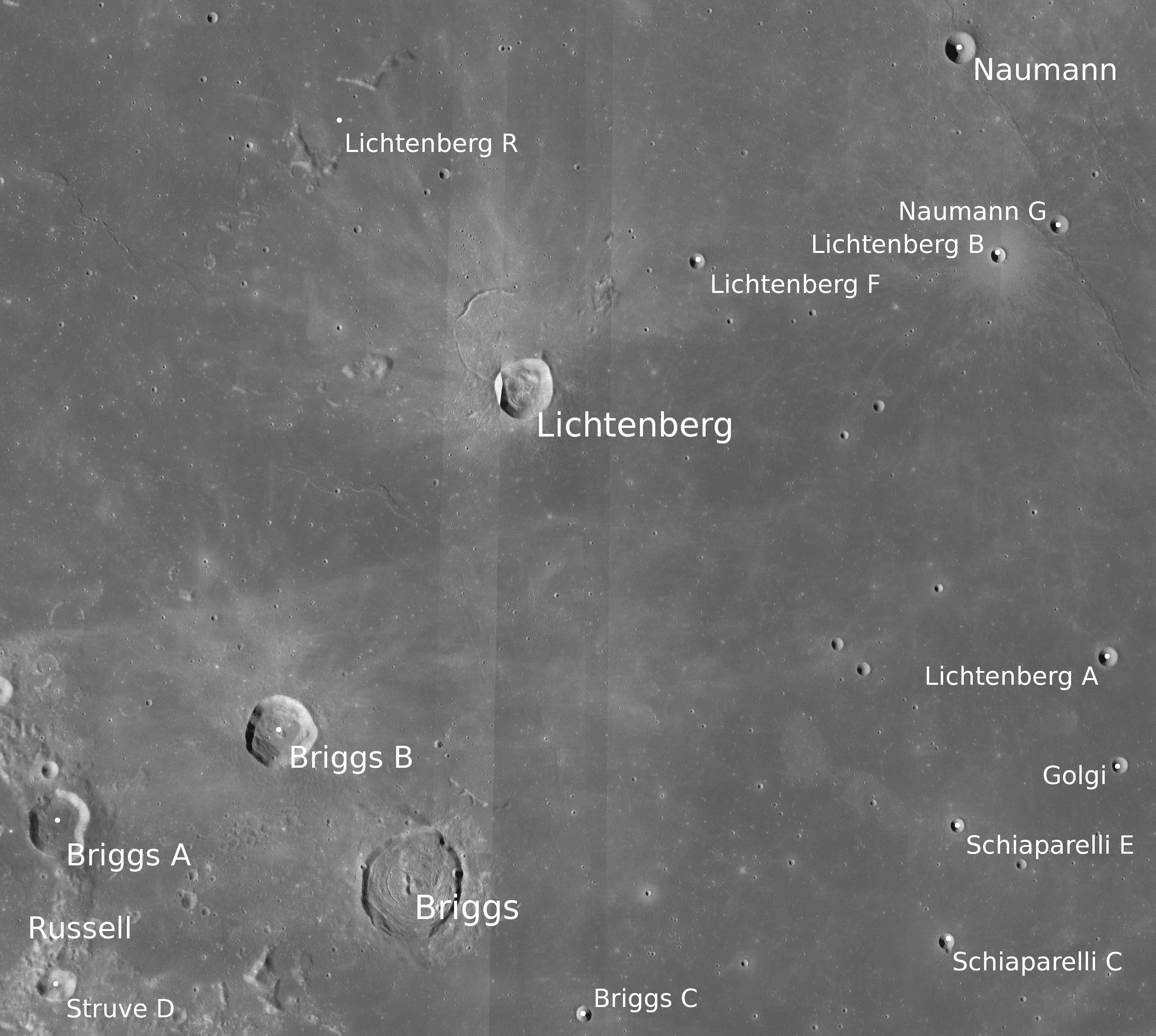 Craters Briggs and Lichtenberg with satellite features (detail of LRO - WAC global moon mosaic)